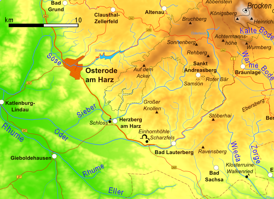 Map of the Harz mountains in Germany with mountains, rivers, lakes, reservoirs, all highways, all Bundesstraßen, Harzquerbahn, Brockenbahn, Selketalbahn, major towns and sights.